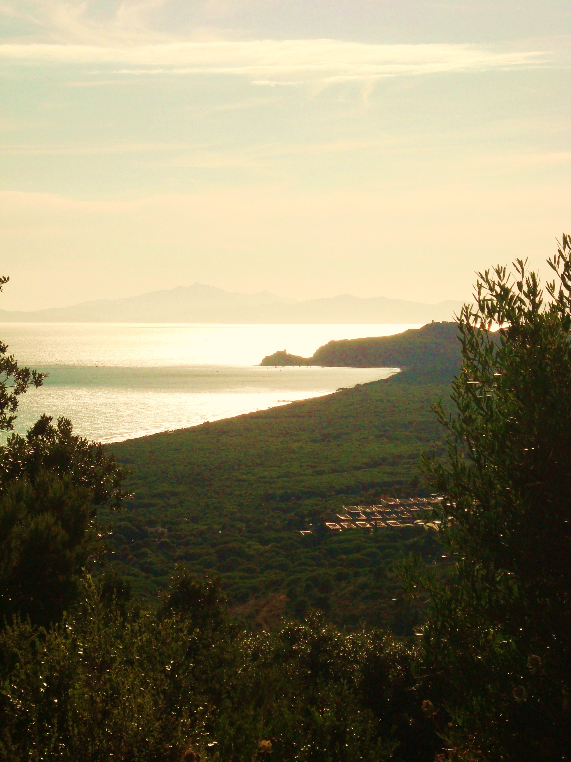 View of Roccamare pinewood and castle of Rocchette